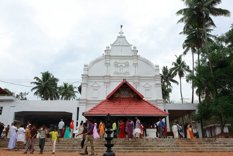 Well Known Kadamattom Church